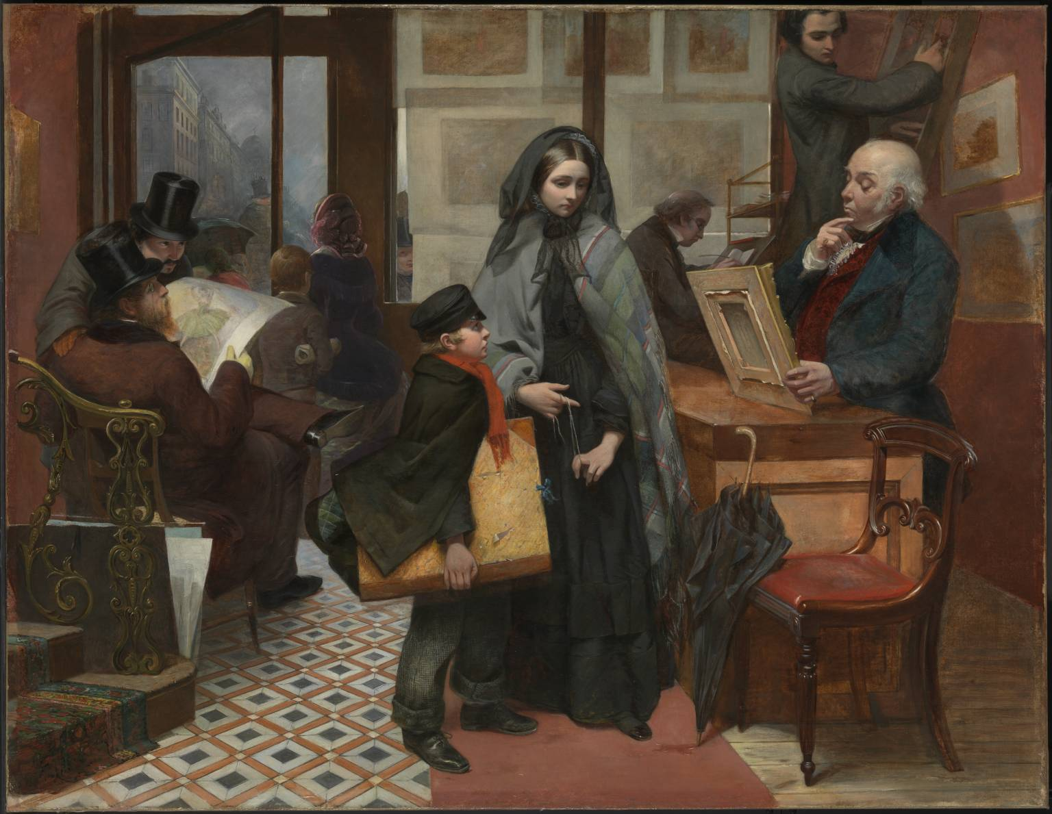 Nameless and Friendless. "The rich man's wealth is his strong city, etc." - Proverbs, x, 15 1857 Emily Mary Osborn 1828-1925 Purchased with assistance from Tate Members, the Millwood Legacy and a private donor 2009